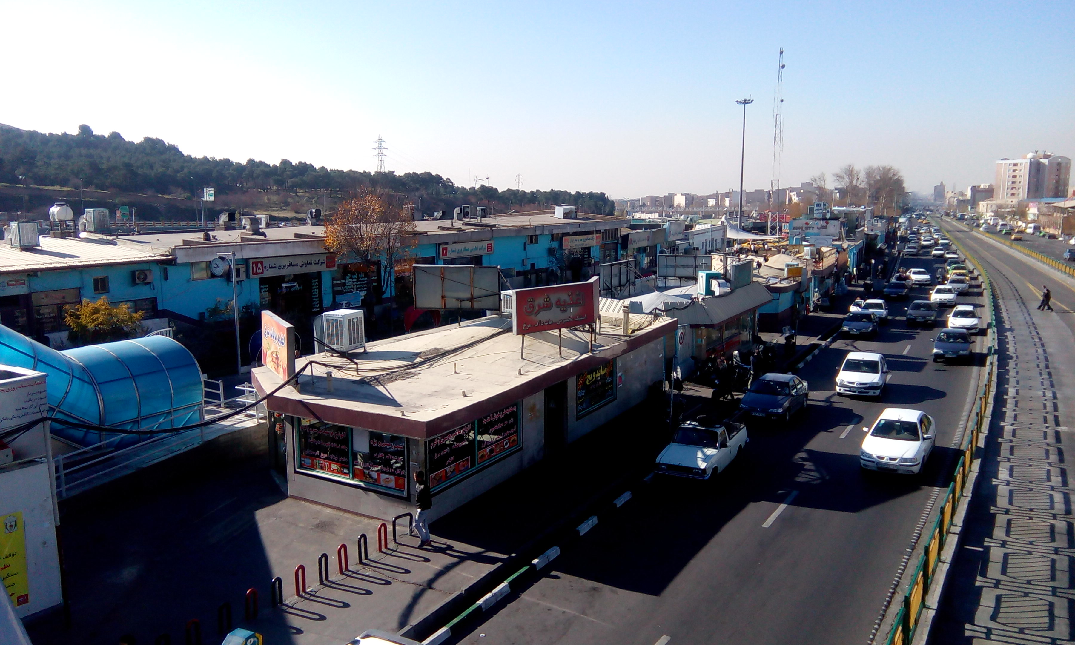 Tehran East Terminal